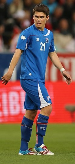 Austria - Iceland football match in Innsbruck, Austria on 2014-05-30. Austria in red, Iceland in blue.